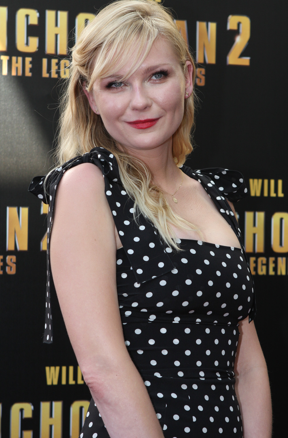 Kirsten Dunst at Anchorman 2 The Australian Premiere The Legend Continues